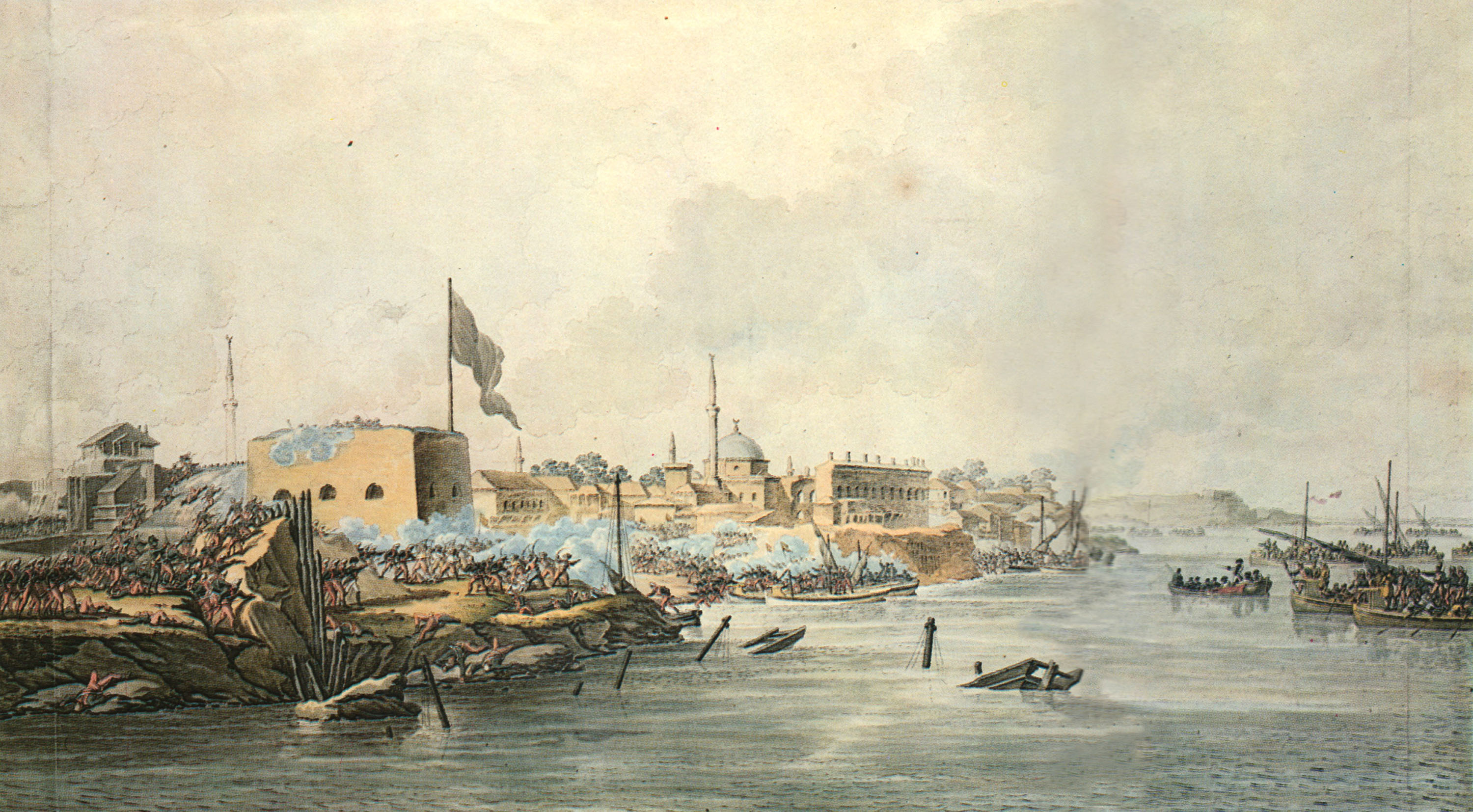 The engraving of Samuil Schiflar 'Siege of Izmail, December 22, 1790' (painted version). Creation of the engraving is based on a watercolor painting of famous military artist, M. Ivanov. The painting was based on the sketches, made by the artist during the battle.